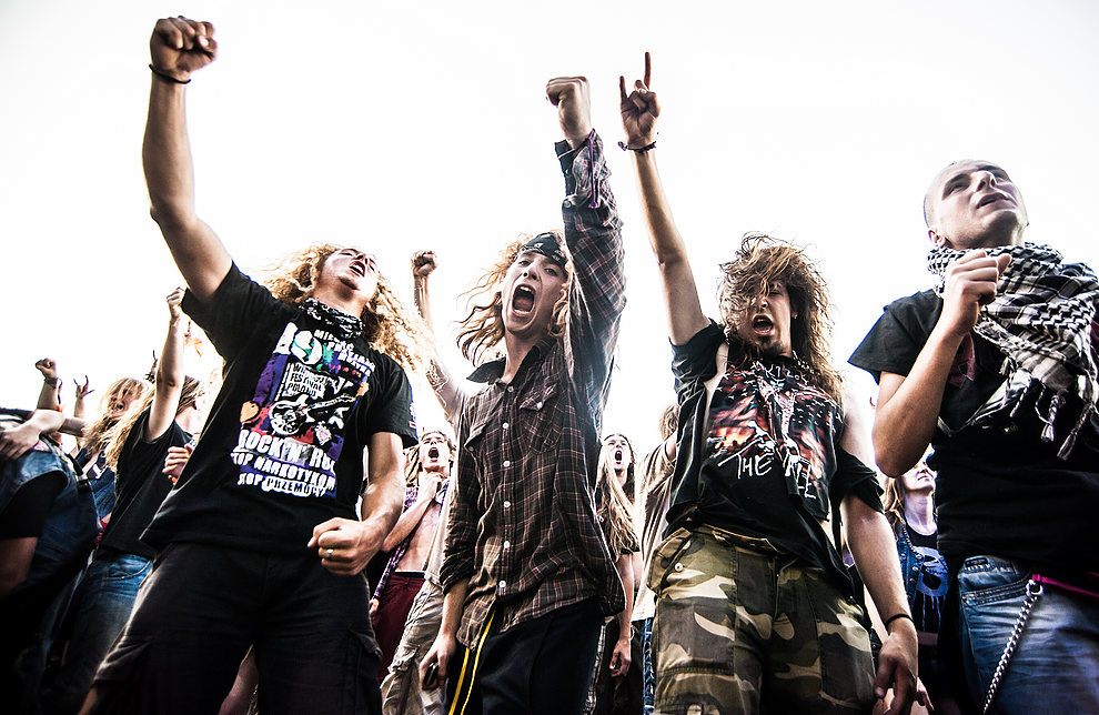 Woodstock Festival in Poland, 2013